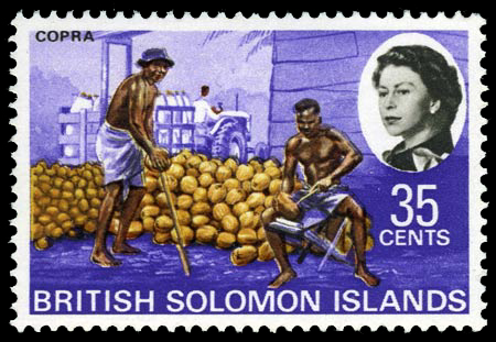 Stamp of the British Solomon Islands, copra, 1968, 35 cents, SG#177.